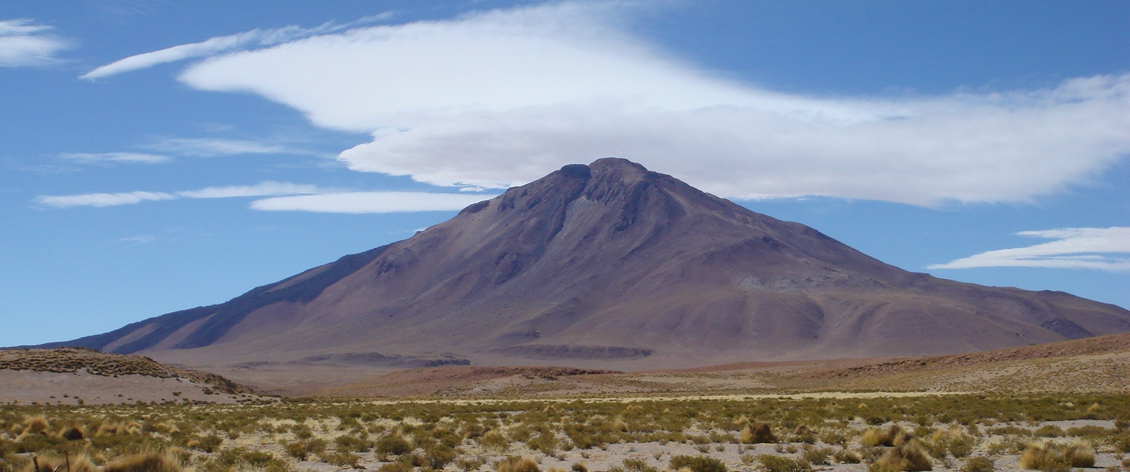 Cerro Tuzgle, an extinct stratovolcano in Susques Department, Jujuy Province, Argentina